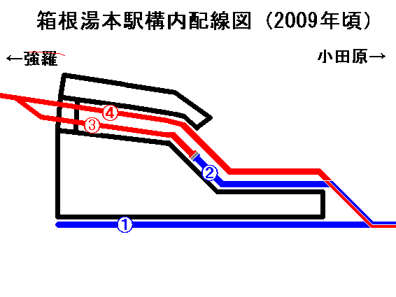 Inside image of Hakone-yumoto Sta.